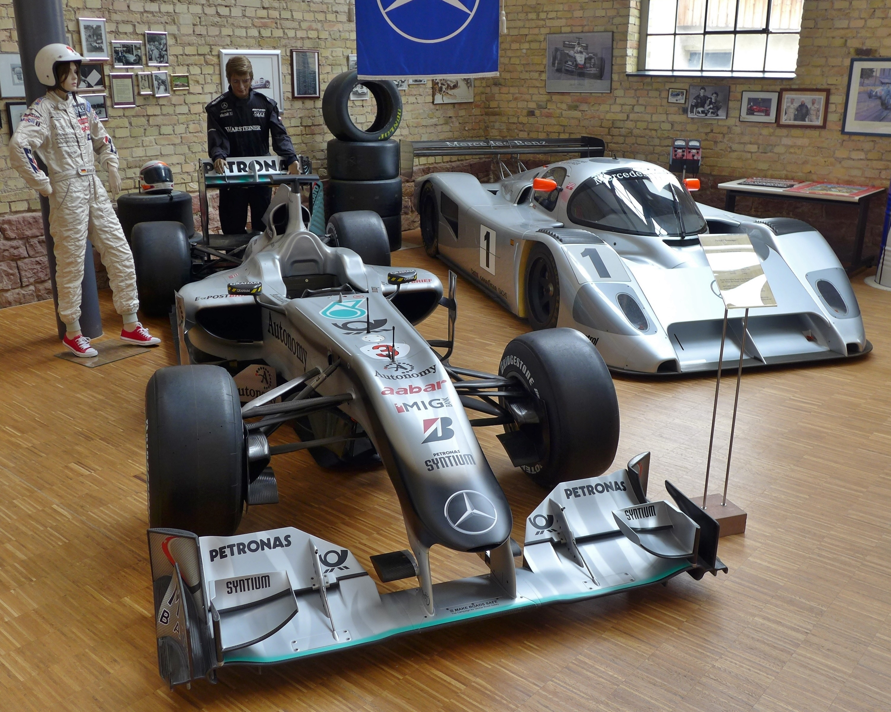 (L-R) A 2010 Mercedes MGP W01, and a 1991 Sauber Mercedes-Benz C291, on display at the Automuseum Dr. Carl Benz, Ladenburg, Baden-Württemberg, Germany. Both of these cars were campaigned by MIchael Schumacher; in the case of the C291, Schumacher co-drove with Karl Wendlinger.